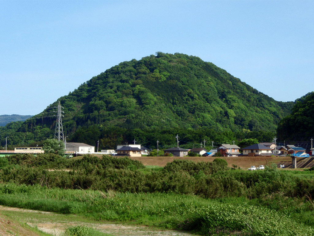 Mount Oarashi as seen from the NNW in Kannami, Shizuoka Prefecture, Japan. A.k.a. Mount Himori. Kano River in the foreground.